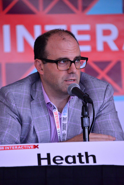 WNCG Prof. Robert Heath promotes mmWave for connected vehicle communication